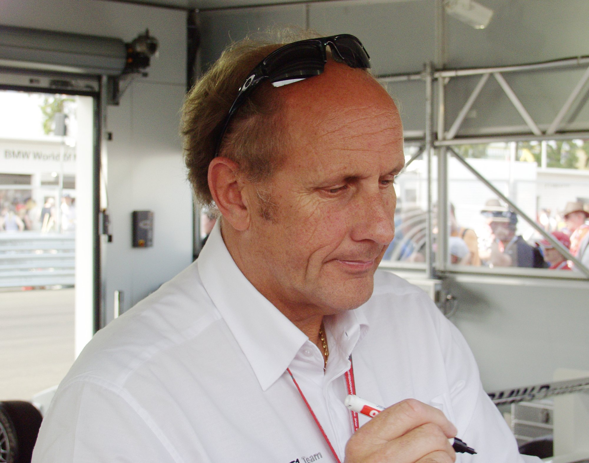 Hans-Joachim Stuck at Nürburgring, 2006